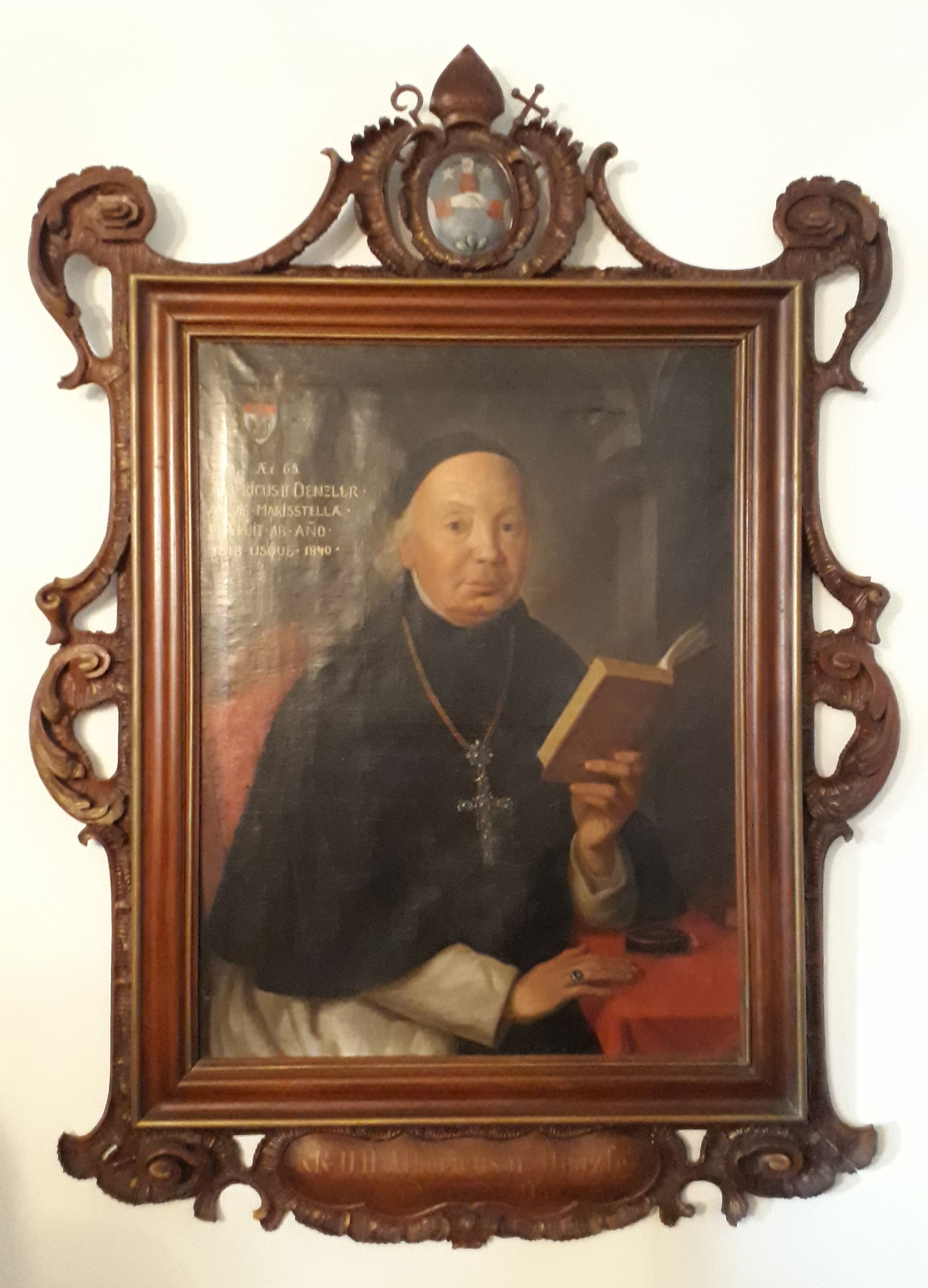 Mehrerau Abbey in Bregenz (Wettingen-Mehrerau Territorial Abbey), Vorarlberg, Austria. Painting of the Denzeler.